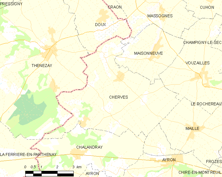 Map of French municipality Cherves